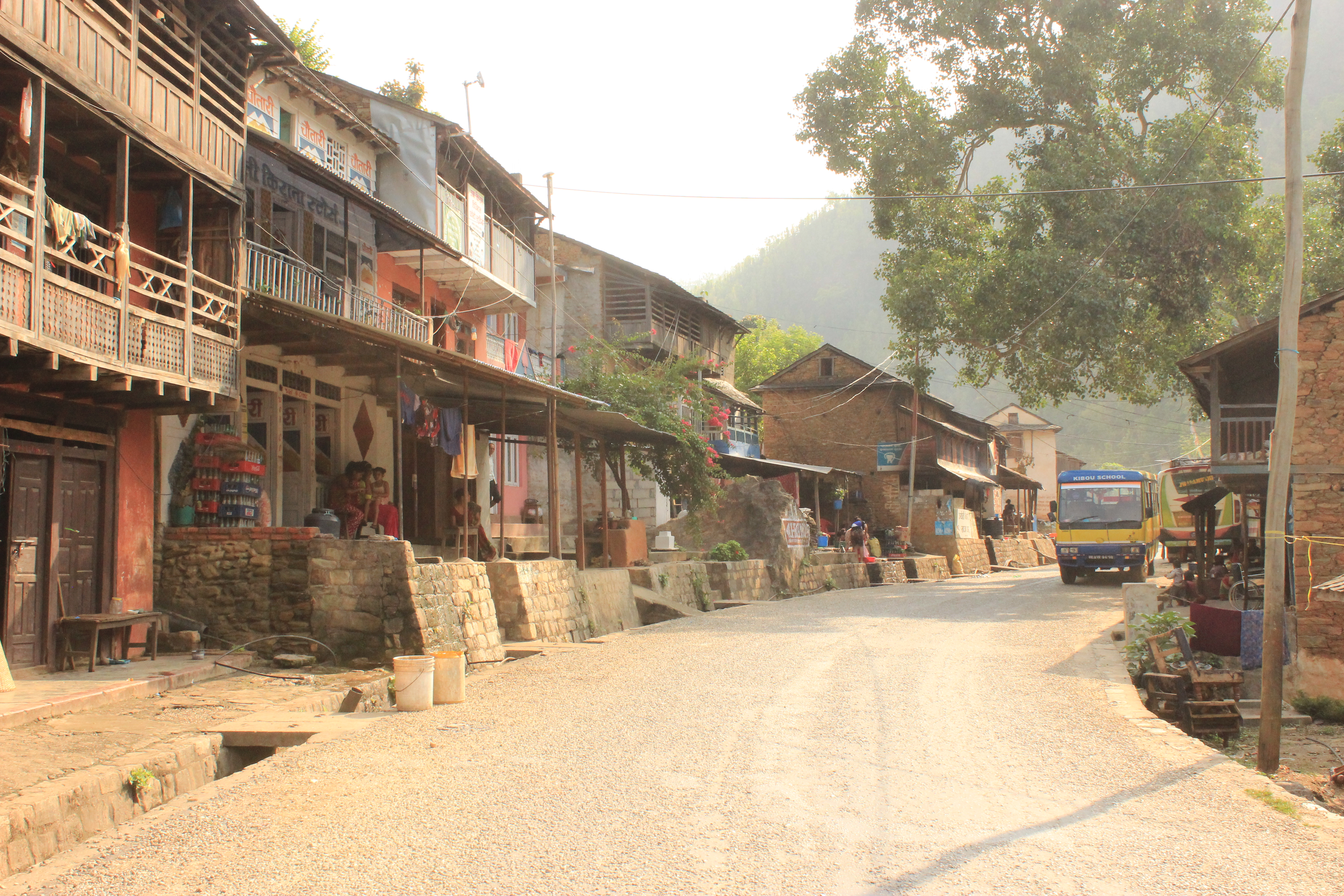 Way to reach Dhading Besi, Nilkantha Municipality, Dhading.